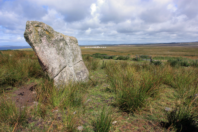 Standing Stone below Druim an Stuim The Machrie Hotel is just visible 1 km north.